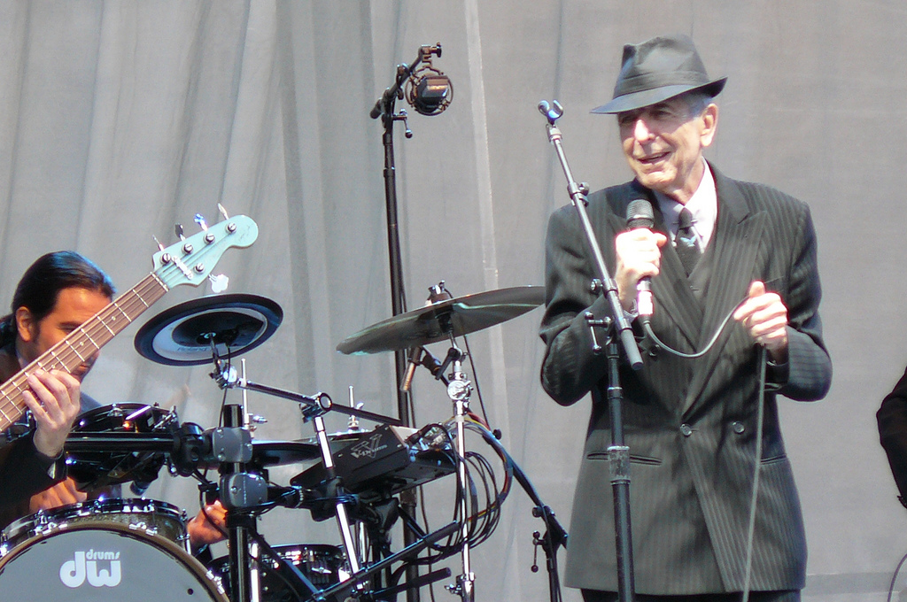 Leonard Cohen, Edinburgh, 16.07.2008